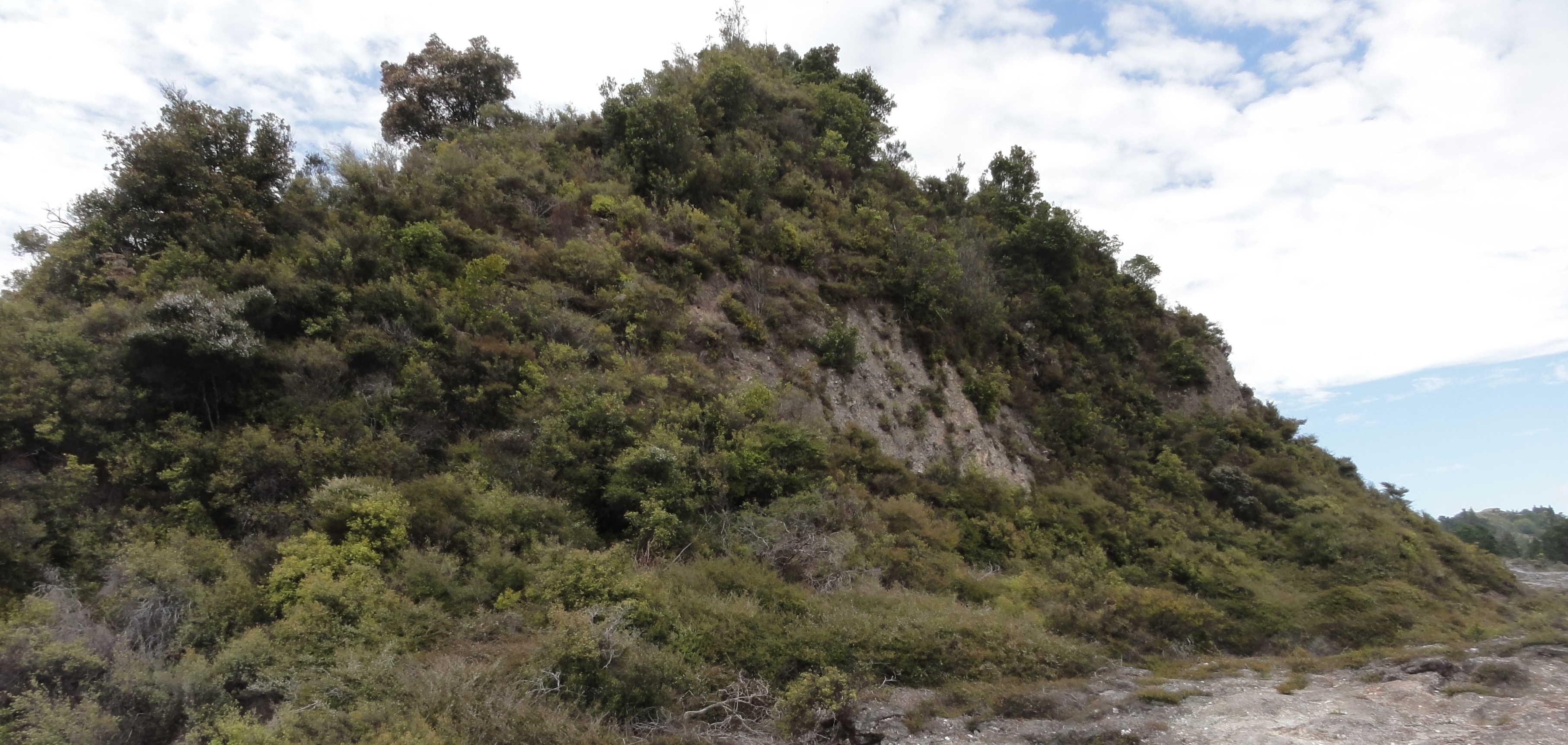 site of former Te Puia Pa in 2011, Whakarewarewa, Rotorua, New Zealand